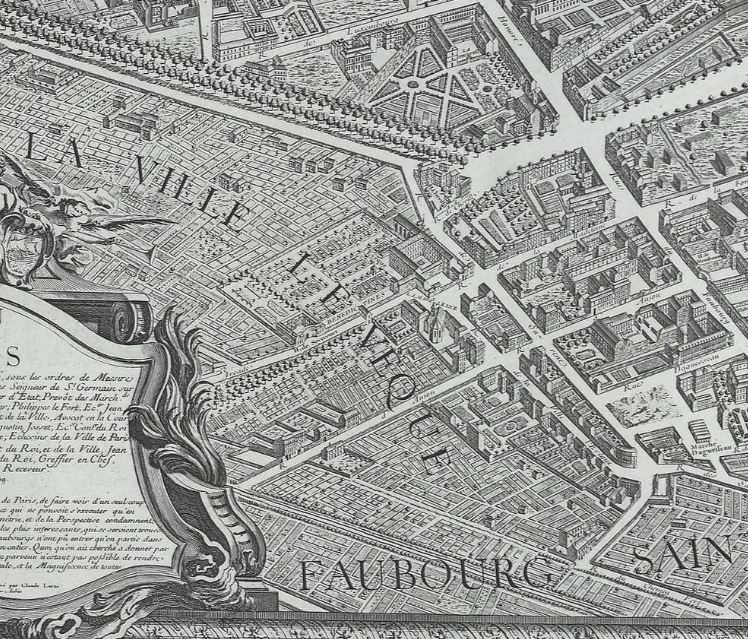 The Ville-l'Évêque (=bishop town) on the plan de Turgot 1736). The top of the map is looking east.